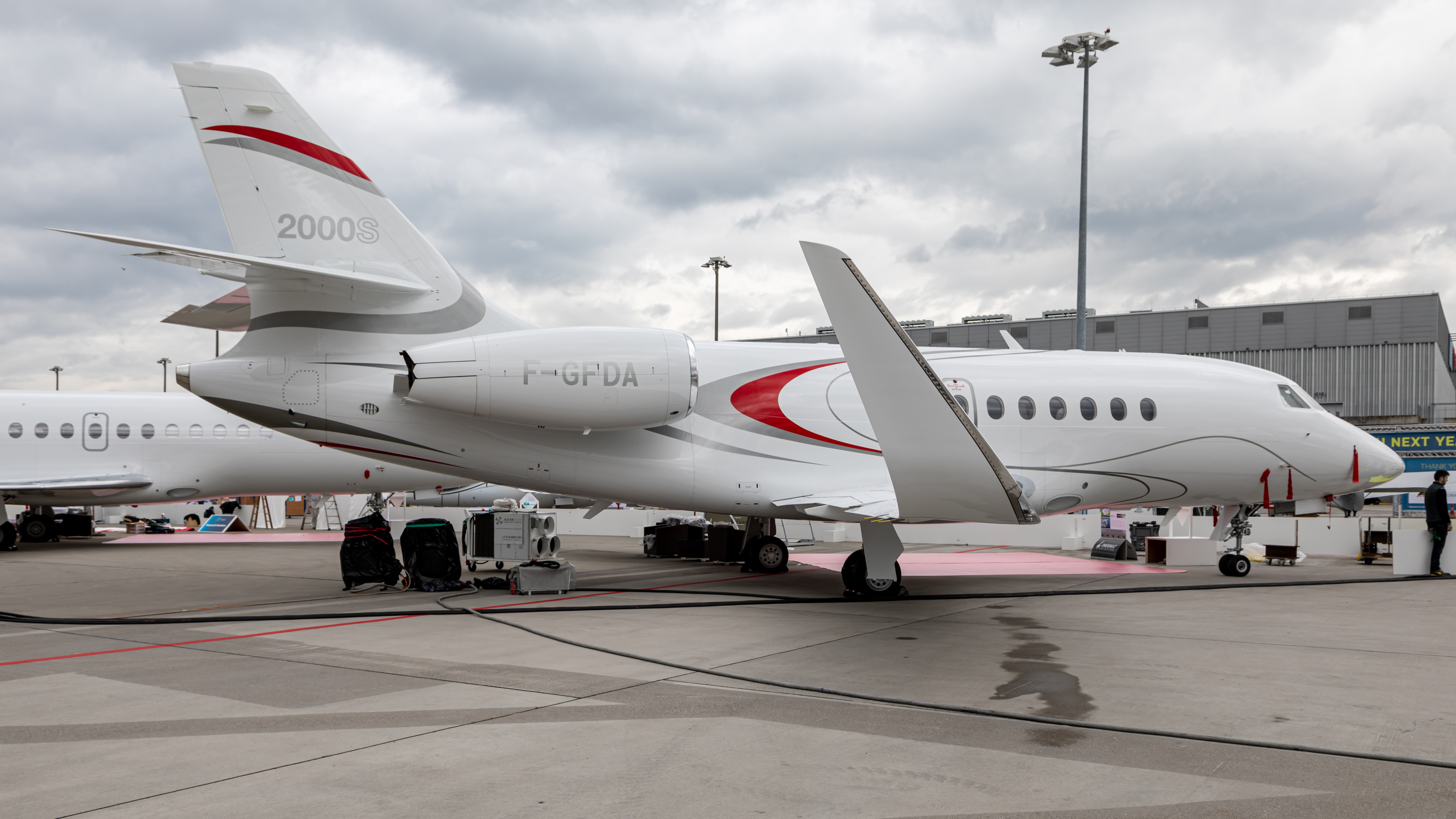 Dassault Falcon 2000S at EBACE 2019, Palexpo, Switzerland